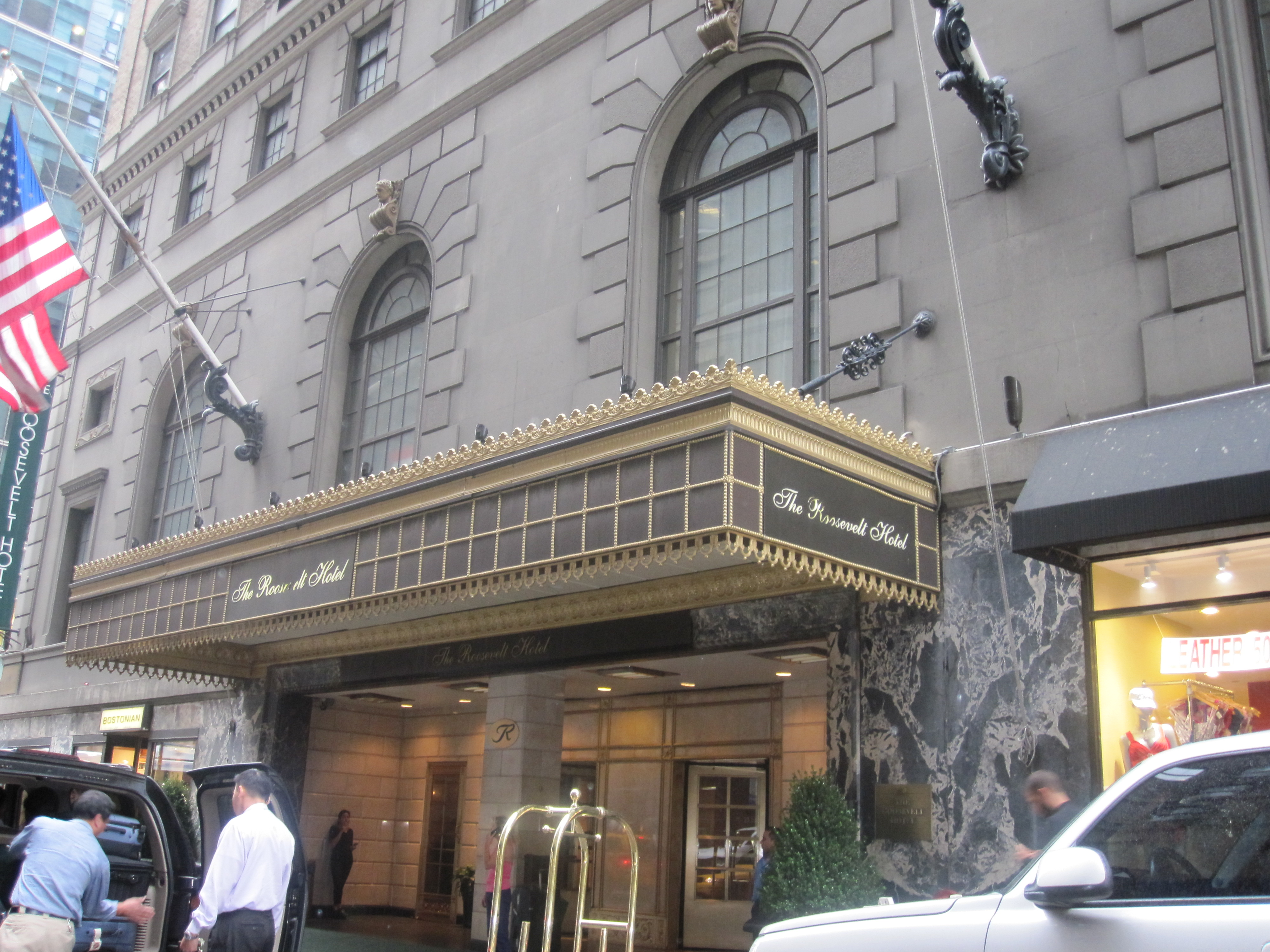 Entrance to Roosevelt Hotel in NYC